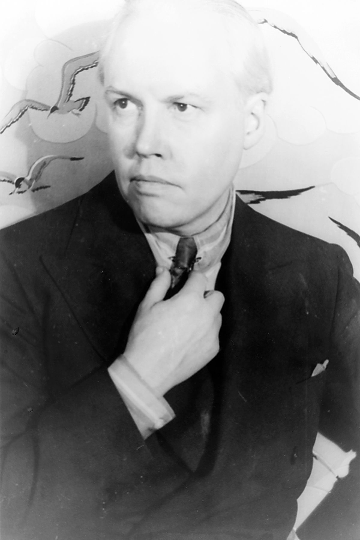 Carl Van Vechten, self-portrait (1934 May 8)